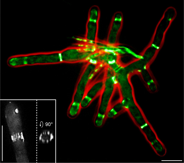 Septins in Ashbya gossypii. Fluorescent micrograph of Ashbya gossypii mycelium with GFP-tagged septins. Green: AgSEP7-GFP (septin), red: outline of the cell (phase contrast), b/w: 3D reconstruction of a discontinuous septin ring, scale bar: 10 μm